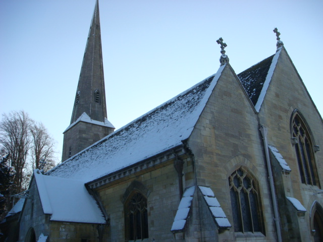 Roof and spire of St Peter's parish church, Leckhampton, Gloucestershire, England, seen from the southeast in snow